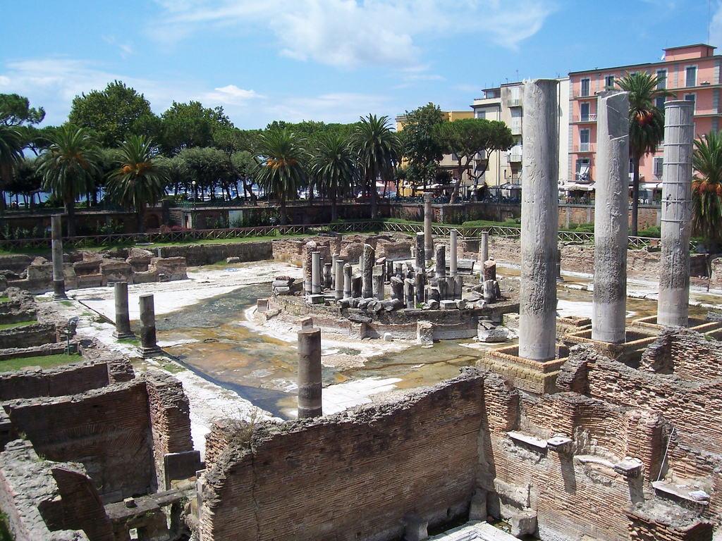 Serapeum, roman temple dedicated to the god Serapis, Pozzuoli, Italy.